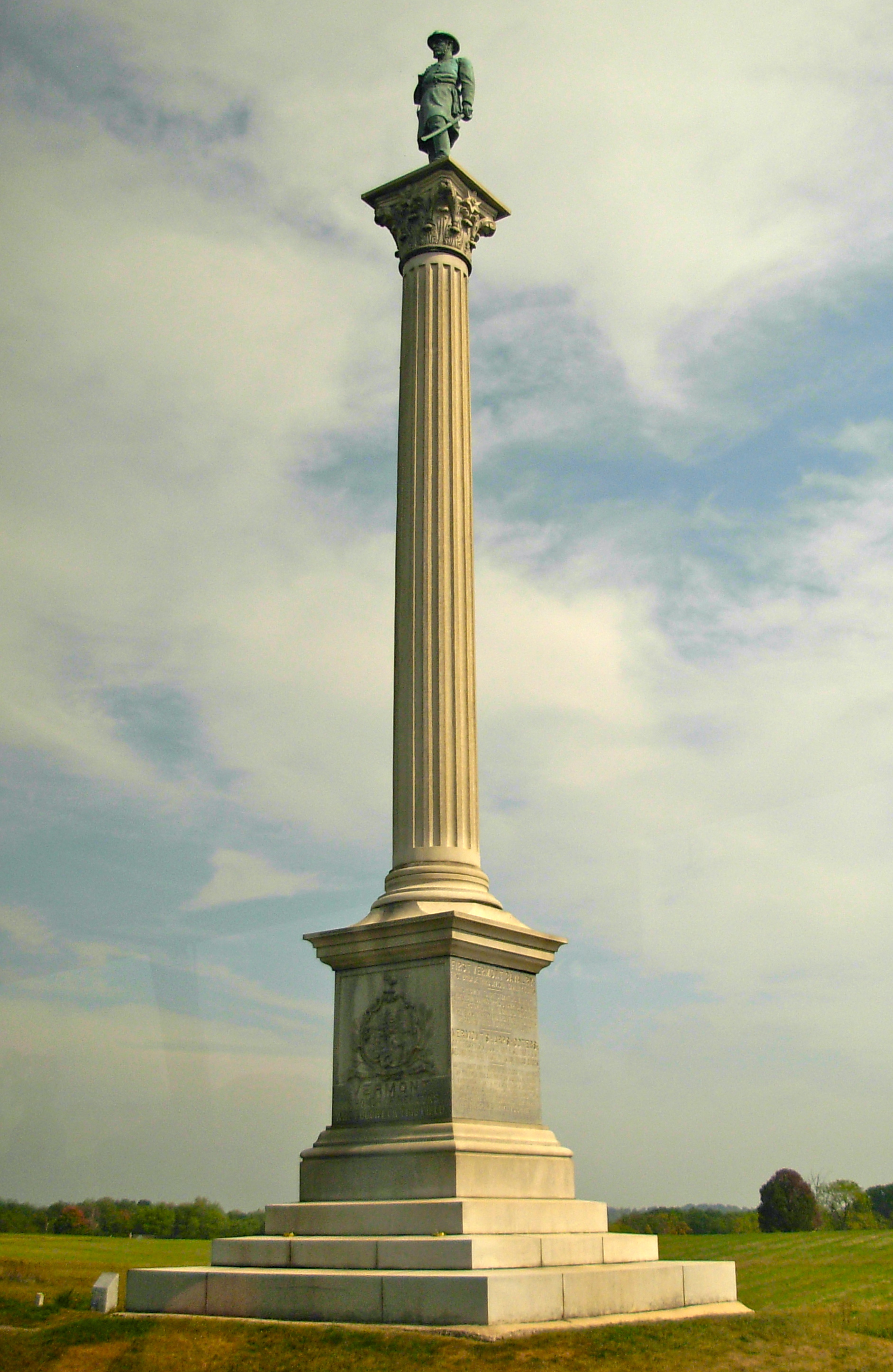 Gettysburg National Military Park and Gettysburg National Cemetery: Stannard's Vermont Brigade Monument. Statue of General George Stannard atop a column; overall height ca. 60 ft.